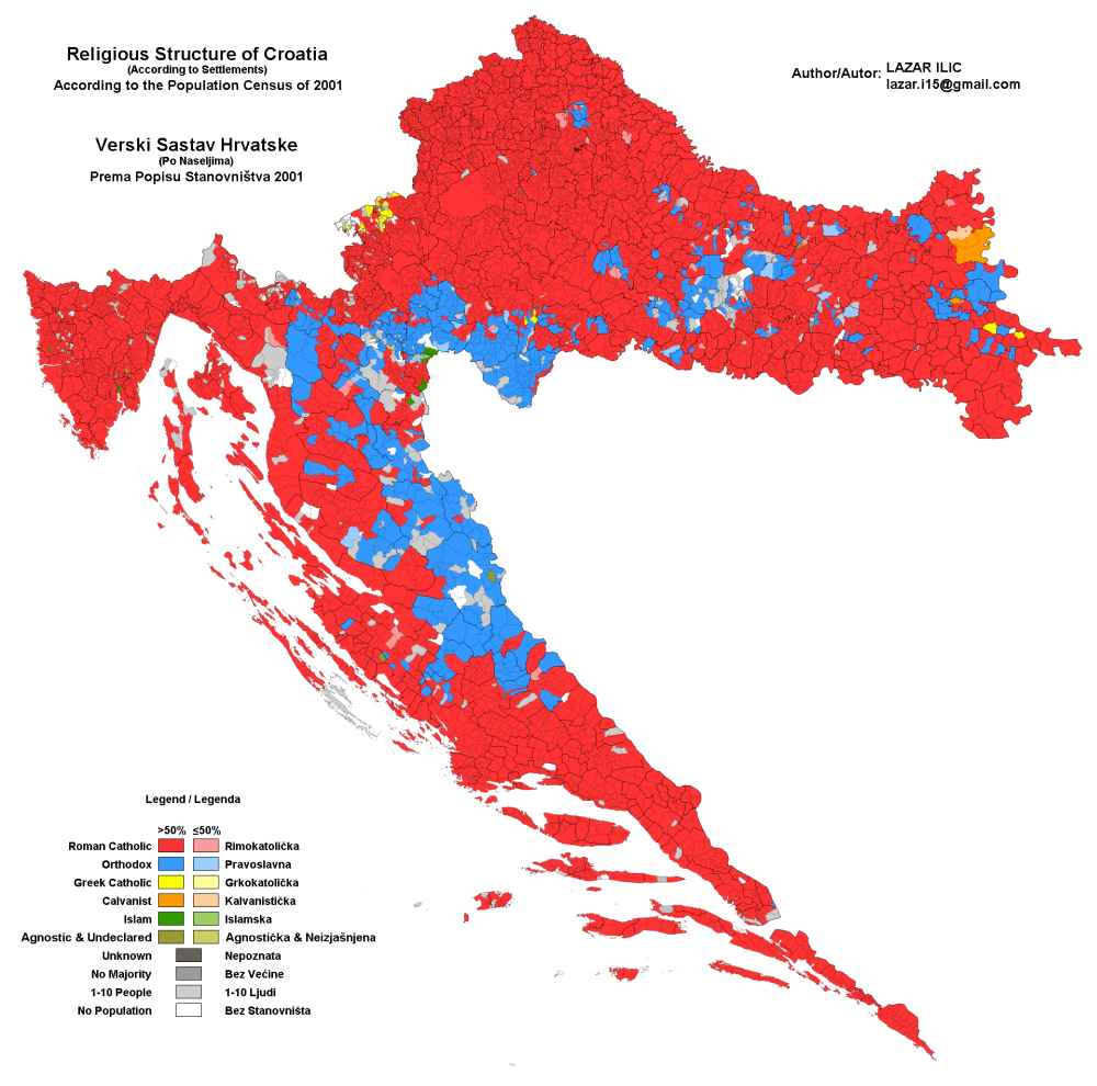 This is a religious map of Croatia. It shows the religious structure according to settlements for the 2001 census.